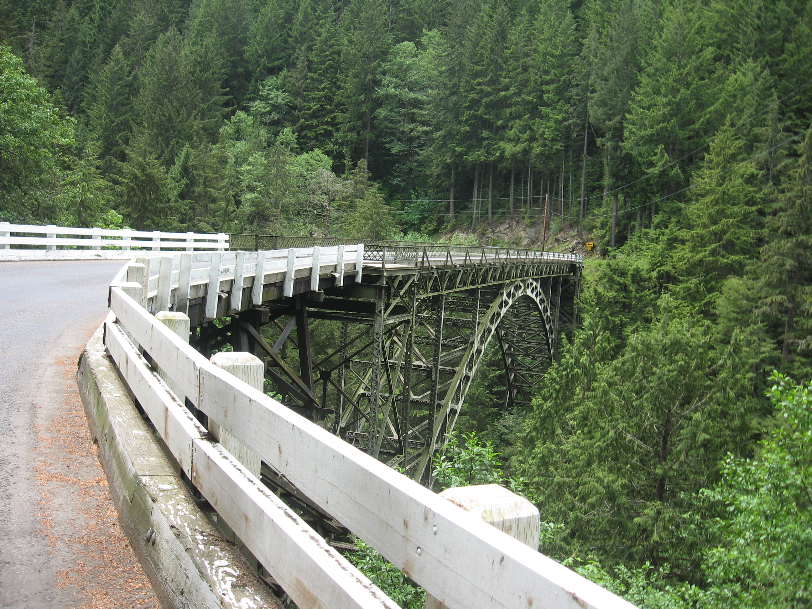 This is the Fairfax bridge, a one lane bridge on SR165 about 2 miles south of Carbonado, Washington, on the way to Mt. Rainer.